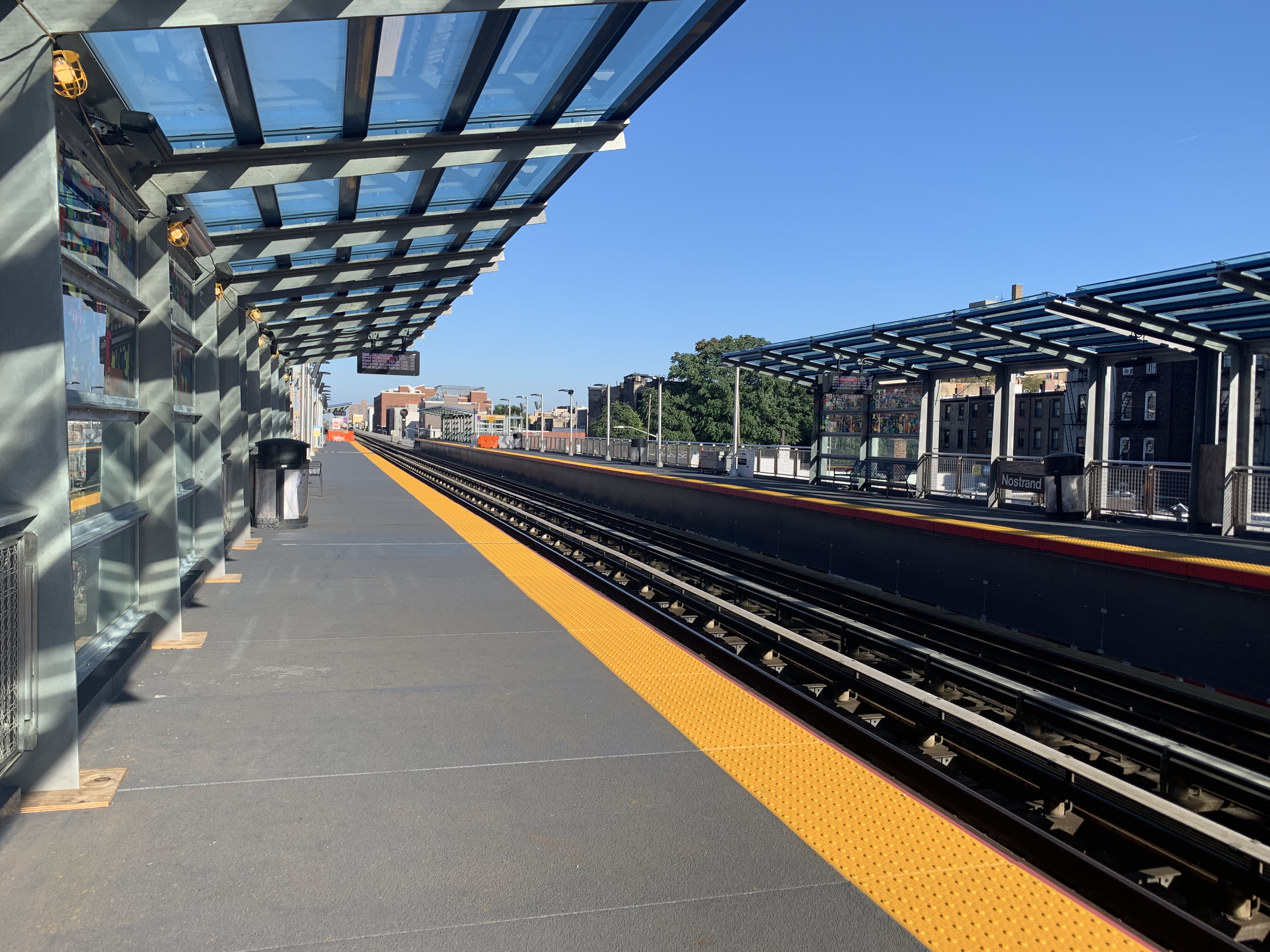 An overall picture of Nostrand Avenue with renovations almost completely done in 2019.